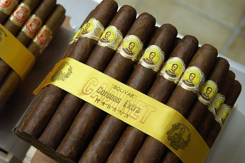 Cabinet of Bolivar Coronas Extras